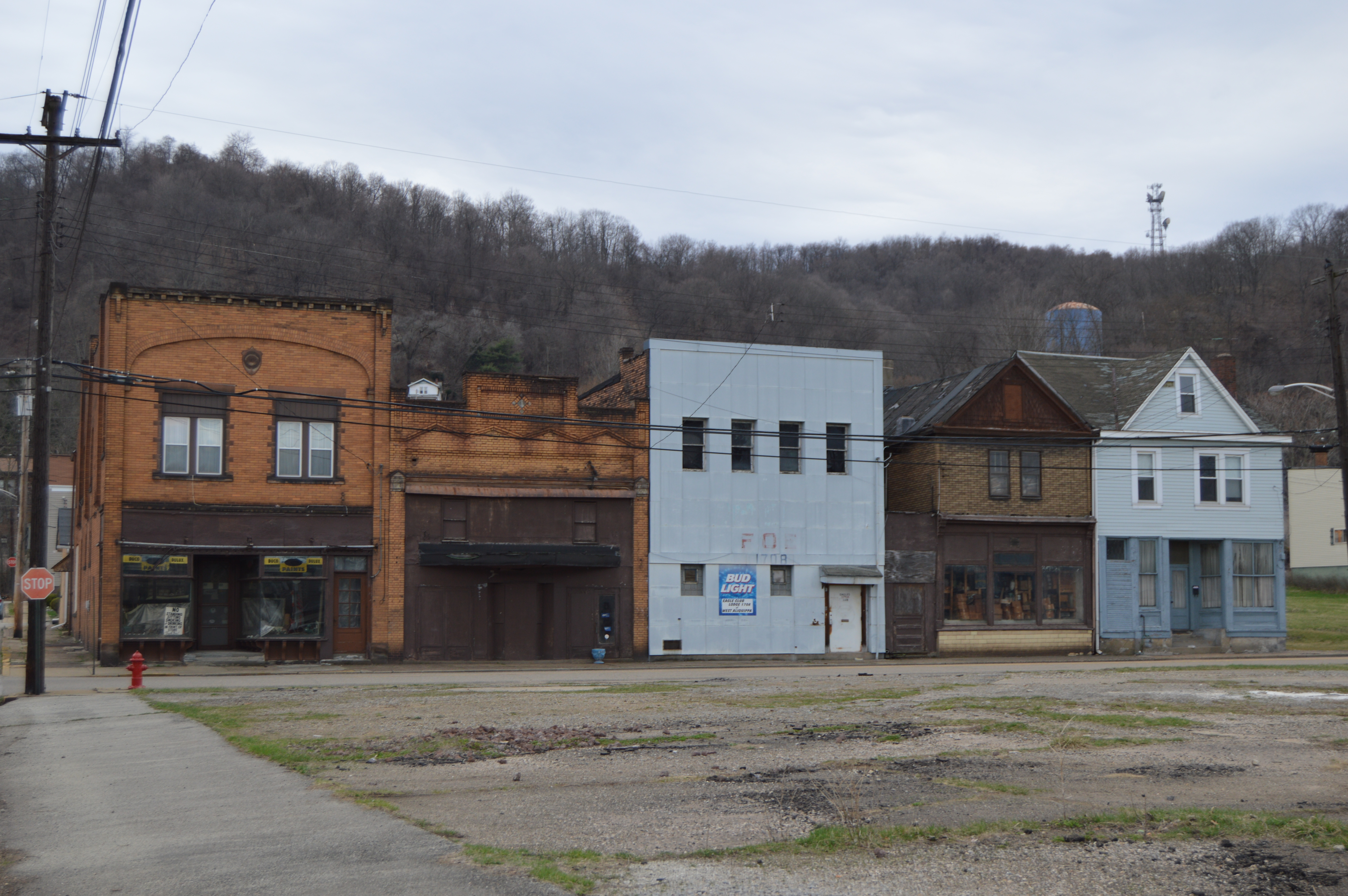 Buildings on the western side of Main Street, just north of the Fourth Street intersection, in Aliquippa, Pennsylvania, United States. This is typical of the city, which has suffered extensive decay since the closure of the city's economic mainstay, a large Jones and Laughlin steel mill; the majority of lots in this neighborhood are vacant, including everything between the camera and these buildings.